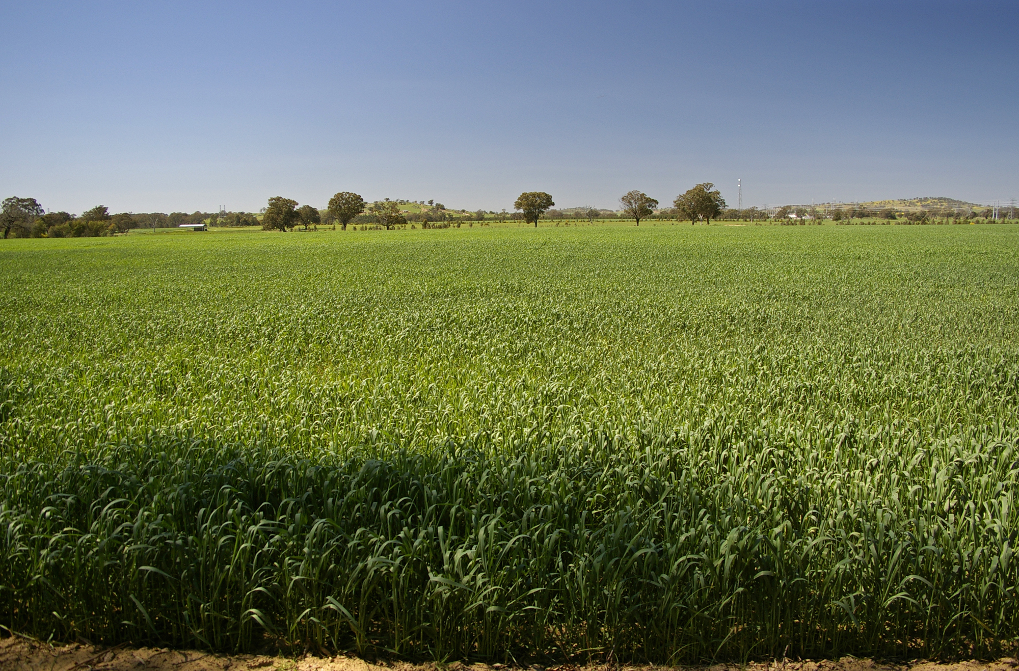 An heat affected Barely or Wheat crop during an green drought in Gregadoo, New South Wales. Photograph was taken the temperature was 26.3°C, Dew point; -5.0°C and Relative humidity; 12%.